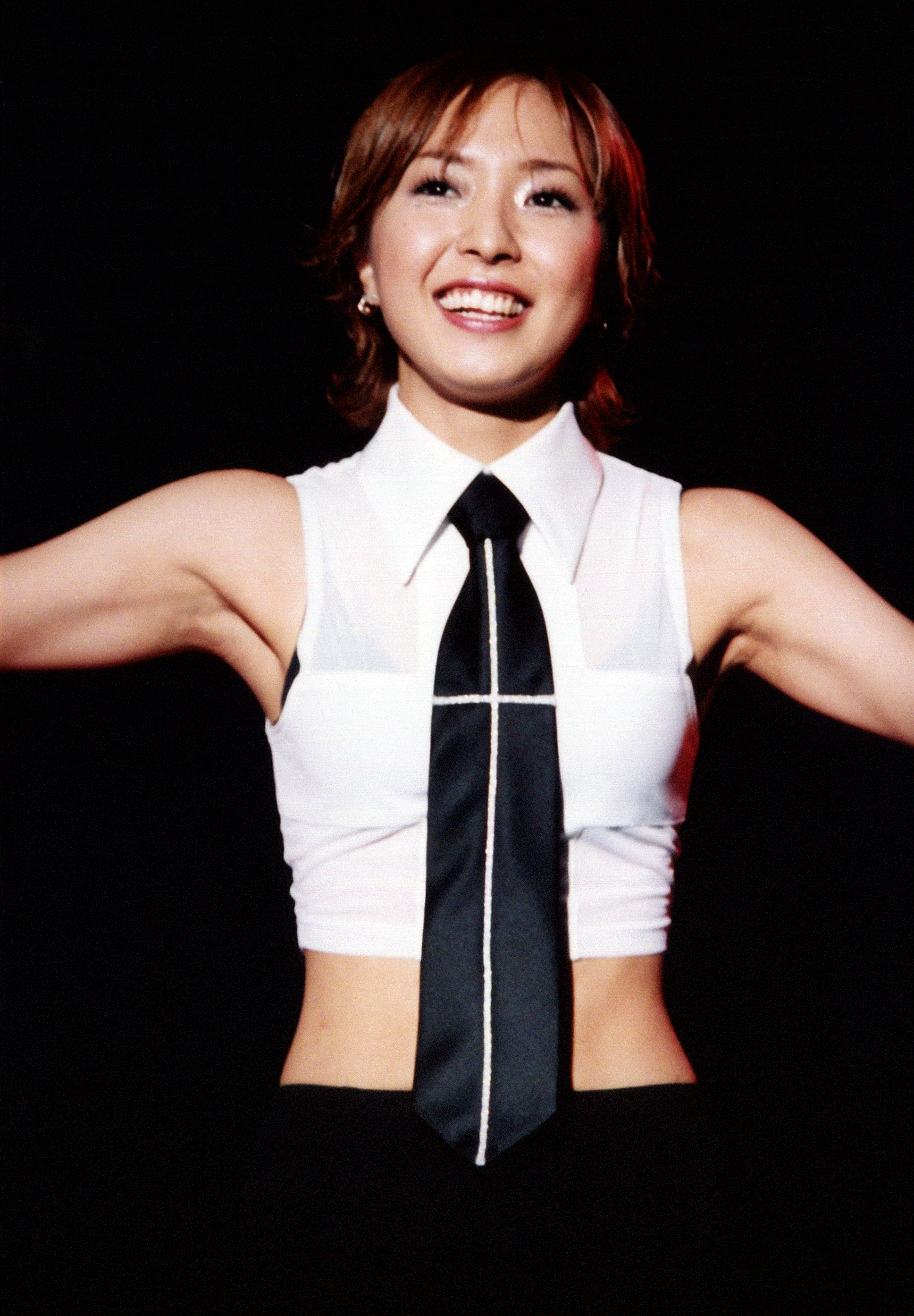 Reina from MAX at their concert in April 1999. Taken front row with an Olympus Zoom 70 on Fuji NHG, scanned with a Nikon Coolscan 3.